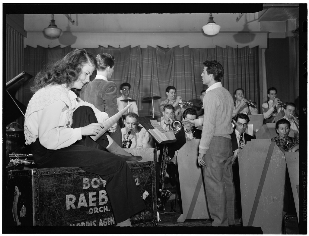 Gottlieb, William P., 1917-, photographer. [Portrait of Boyd Raeburn, Ginnie Powell, vocalist Johnson, Irv Kluger, Pete Candoli, Wes Hensel, Gordon Boswell, Hy Mandell, Randy Bellerjeau, Abe Markowitz, and Buddy De Franco, Nola's, New York, N.Y., ca. Feb. 1947] 1 negative : b&w ; 3 1/4 x 4 1/4 in. Caption from Down Beat: Ginnie Powell, vocalist and Boyd's wife; male vocalist Jay Johnson; (back row) drummer Irving Kluger; Pete Candoli, Wes Hensel and Gordon Boswell, trumpets; (front row) Hy Mandell, baritone; Randy Bellerjeau, trombone; Abe Markowitz (behind Boyd's hand) alto; and Buddy De Franco, clarinet. Notes: Gottlieb Collection Assignment No. 272 Reference print available in Music Division, Library of Congress. Purchase William P. Gottlieb Forms part of: William P. Gottlieb Collection (Library of Congress). In: "Nola Studios is meeting place for NYC musicians," Down Beat, v. 14, no. 5 (Feb. 26, 1947), p. 15. Subjects: Raeburn, Boyd, 1913-1966 Powell, Ginnie Johnson, Jay, vocalist Kluger, Irv Candoli, Pete, 1923- Hensel, Wes Boswell, Gordon Mandell, Hy Bellerjeau, Randy Markowitz, Abe De Franco, Buddy, 1923- Jazz musicians--1940-1950. Women jazz musicians--1940-1950. Big bands--1940-1950. Jazz singers--1940-1950. Conductors (Music)--1940-1950. Nola's Format: Portrait photographs--1940-1950. Group portraits--1940-1950. Film negatives--1940-1950. Rights Info: Mr. Gottlieb has dedicated these works to the public domain, but rights of privacy and publicity may apply. Repository: (negative) Library of Congress, Prints & Photographs Division, Washington D.C. 20540 USA, (reference print) Library of Congress, Music Division, Washington D.C. 20540 USA, Part Of: William P. Gottlieb Collection (DLC) 99-401005 General information about the Gottlieb Collection is available at Persistent URL: Call Number: LC-GLB13- 0719